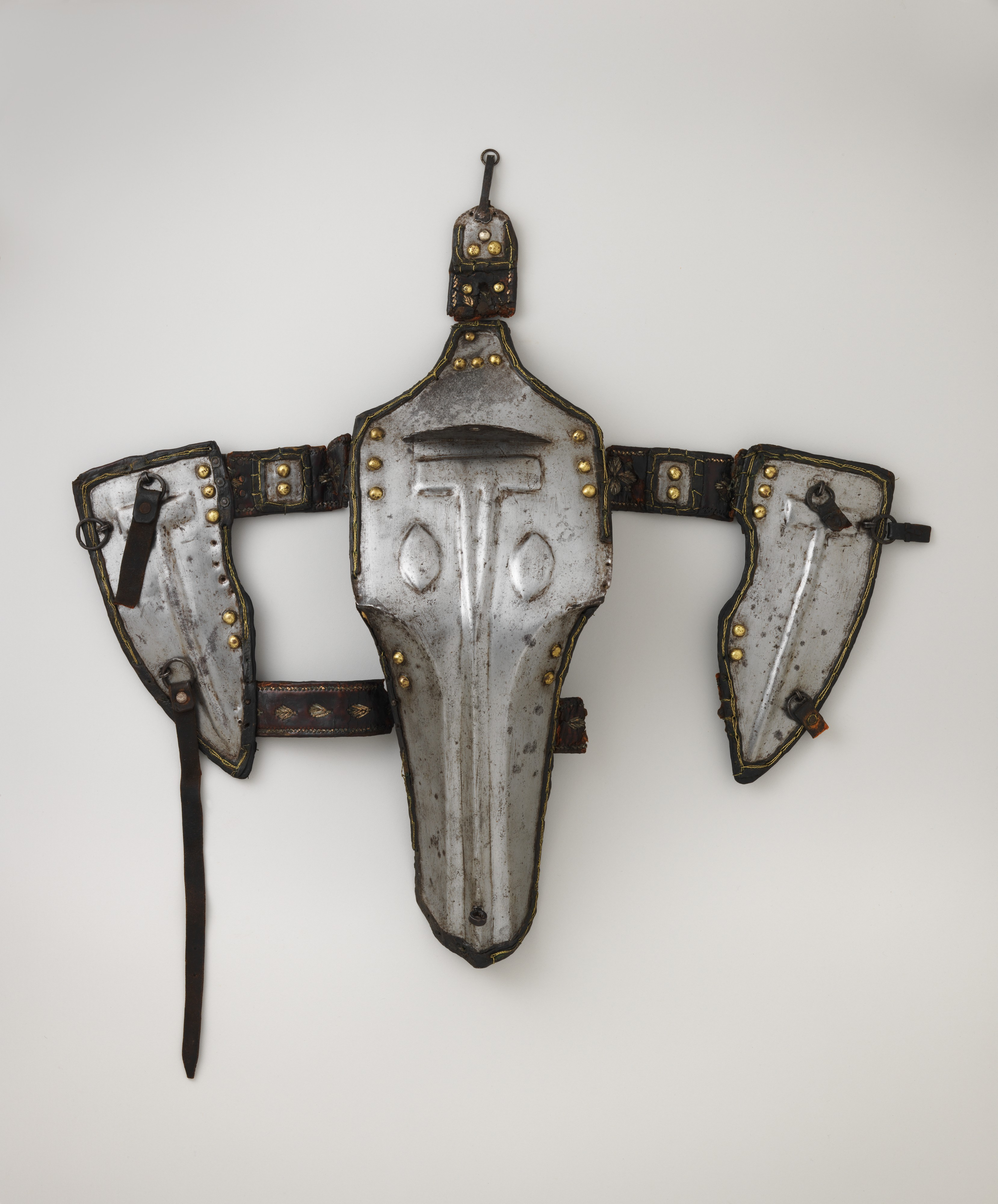 "Camels were used in the Middle East not only for transport but also for battle. Judging from its sharply angled profile, this shaffron of steel plate was probably intended for a war camel. By contrast, shaffrons for horses have flat profiles." Culture: Turkish. Classification : Equestrian Equipment-Shaffrons. Source of the description